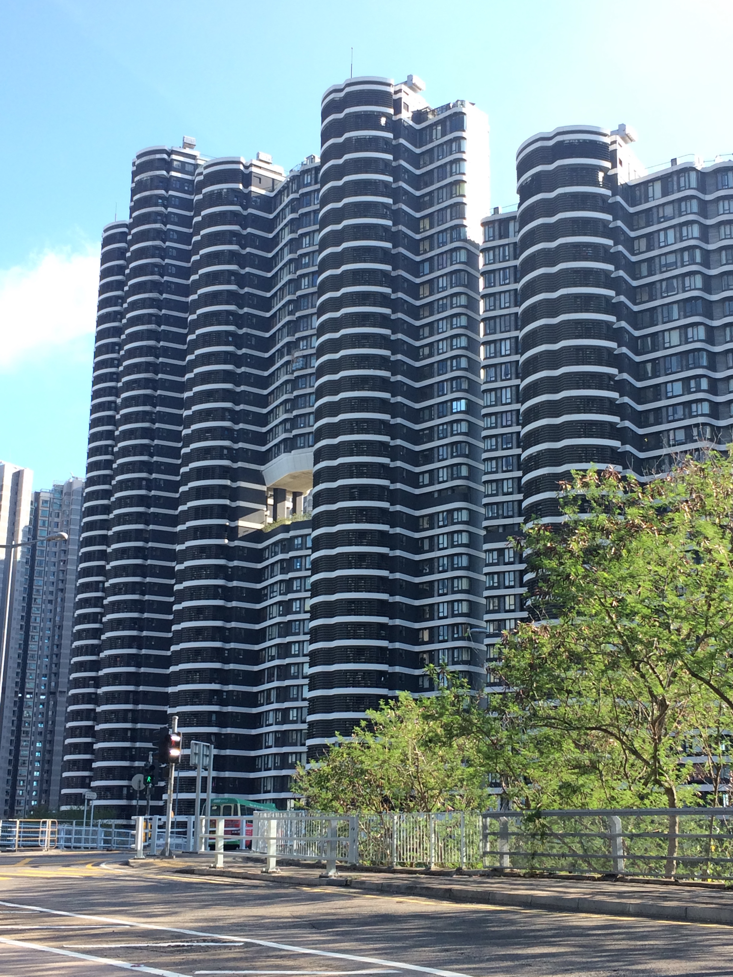 Bel-air Residence Tower 6